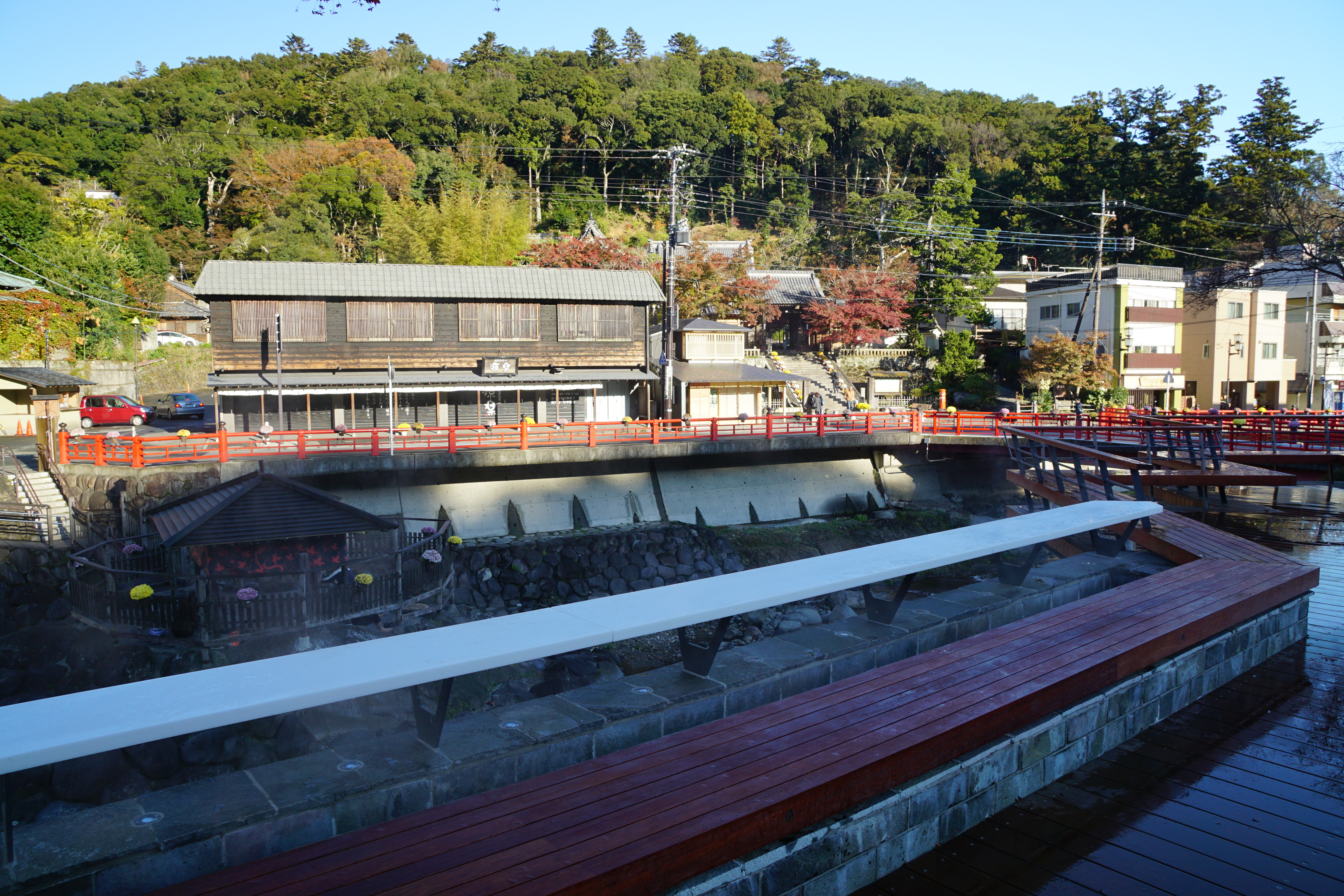 At Shuzenji Onsen in Izu, Shizuoka prefecture, Japan.